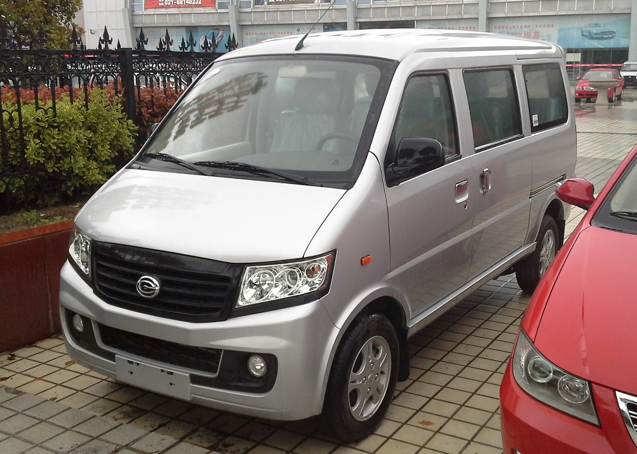 Gonow Xingwang CL photographed in Shanghai, China.